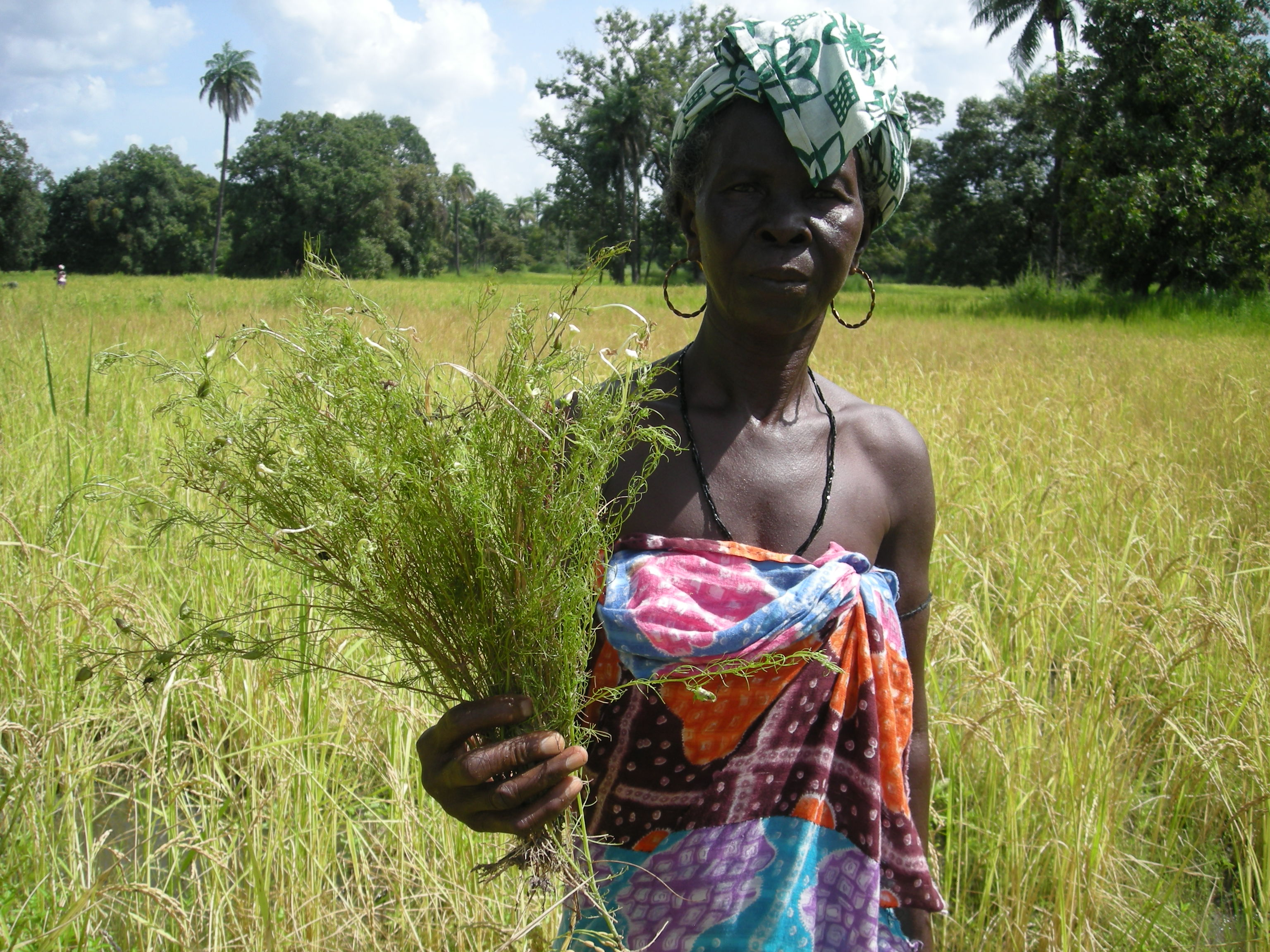 A rice farmer in the Cassamance (southern Senegal) showing Macrosiphon fistulosus (Rhamphicarpa fistulosa) plants invading her crop.